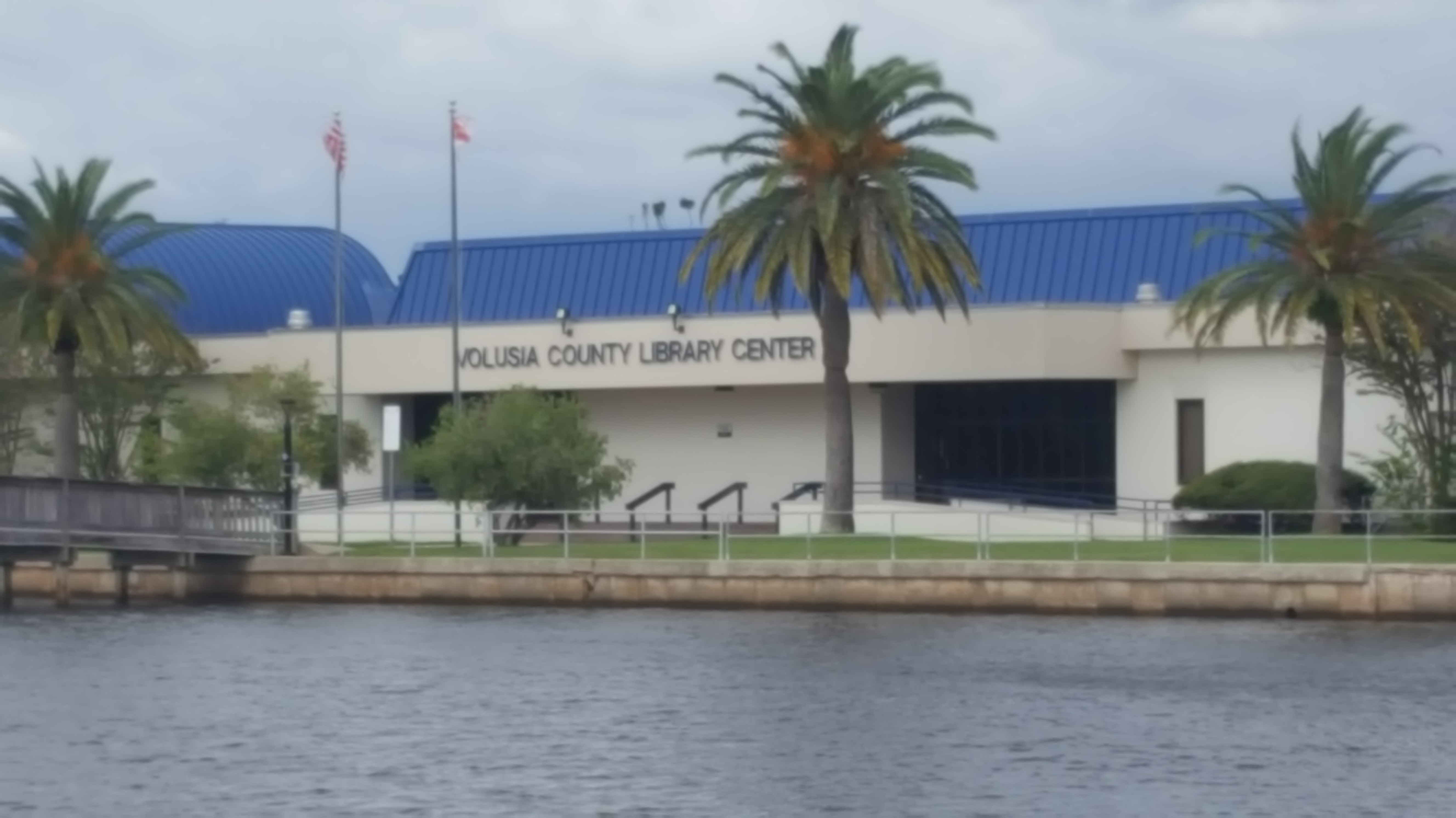 Volusia County Library Center at City Island, Daytona Beach, Florida as seen from Beech Street.